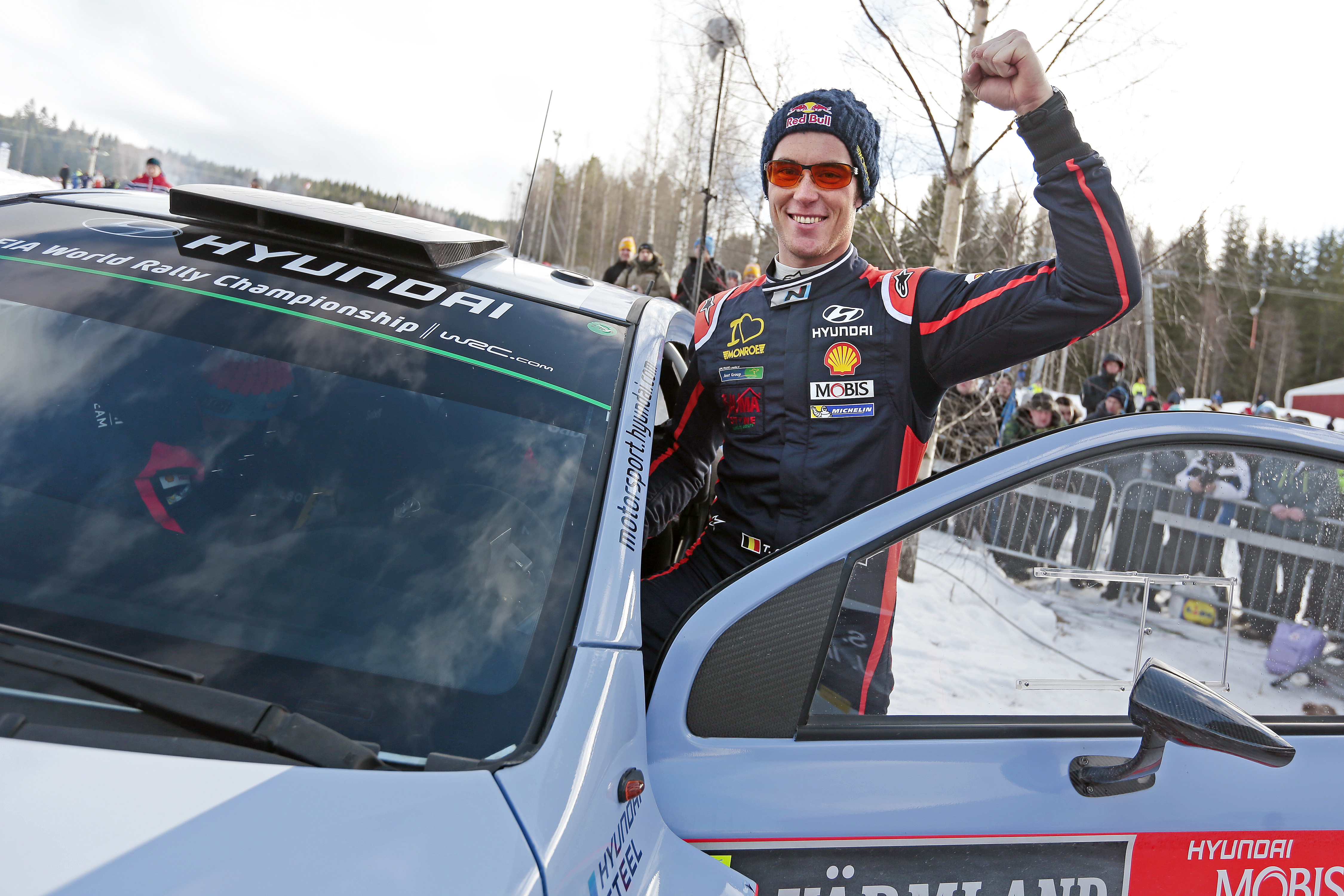 Thierry Neuville and his Hyundai i20 WRC at the 2015 Rally Sweden.